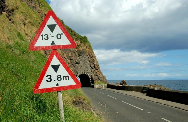 The Black Arch near Larne (2). See 851804. The tunnel is subject to a height restriction with oversize vehicles diverted by the Old Glenarm Road, Larne (ie the old main road replaced by the coast road). There is no sign indicating a width restriction.